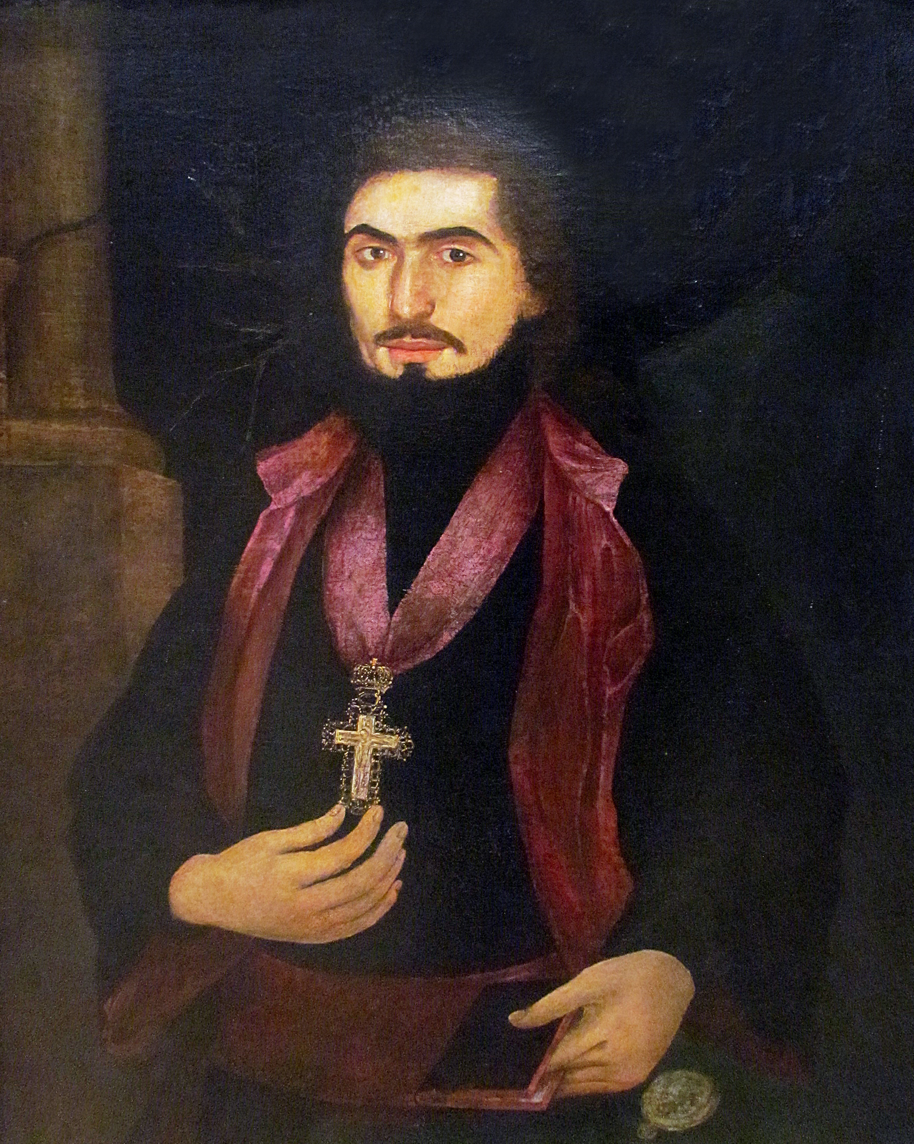 Bishop Stefan Avakumović, cca 1790, by Teodor Ilić Češljar, National Museum of Serbia